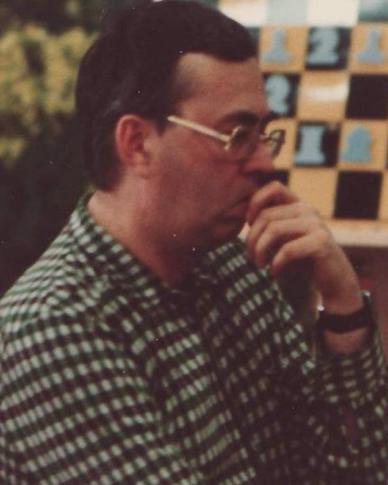 Laszlo Barczay, Dortmunder Schachtage 1982, Photographer Gerhard Hund.